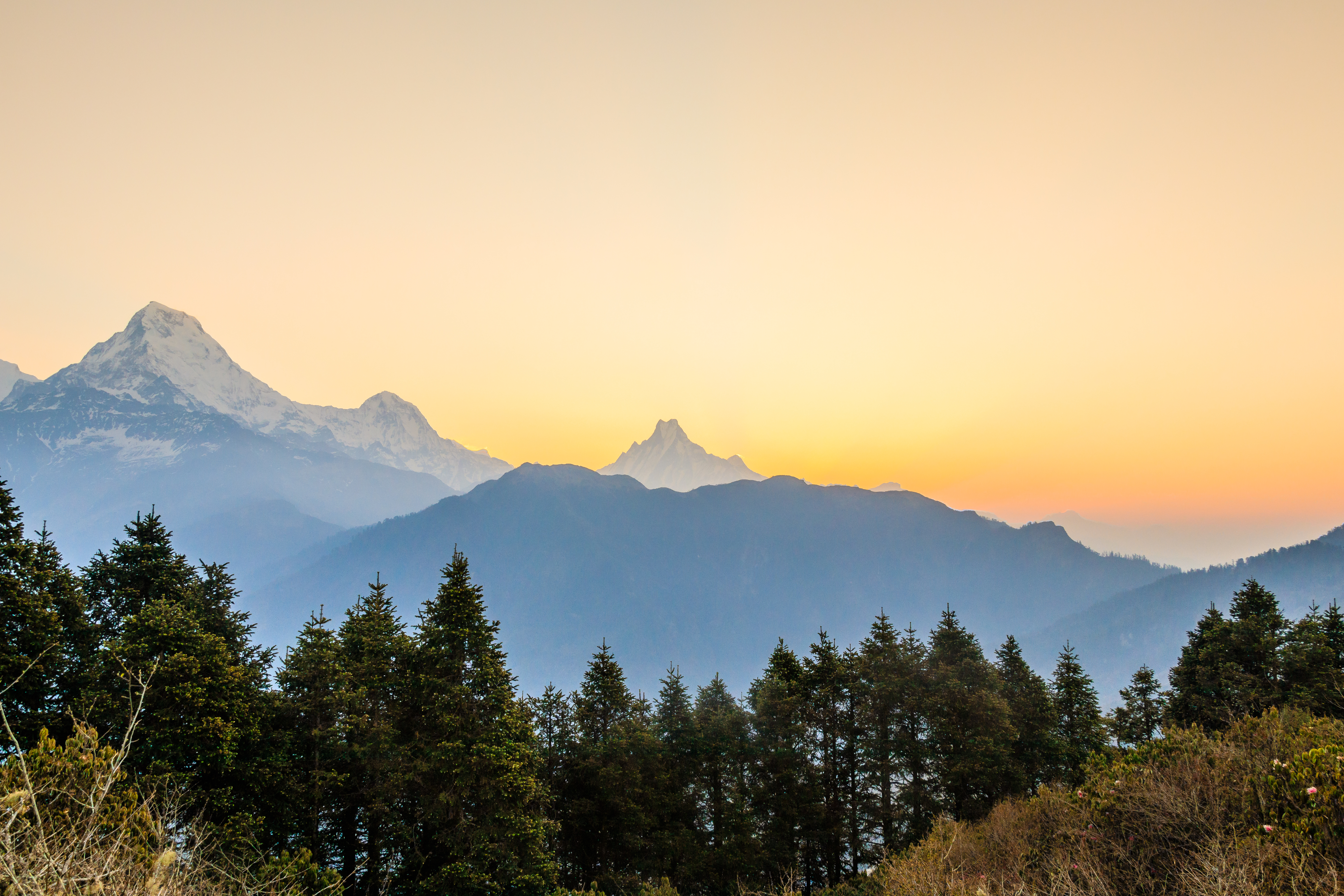 Annapurna South, Himchuli, Machapuchare Himal